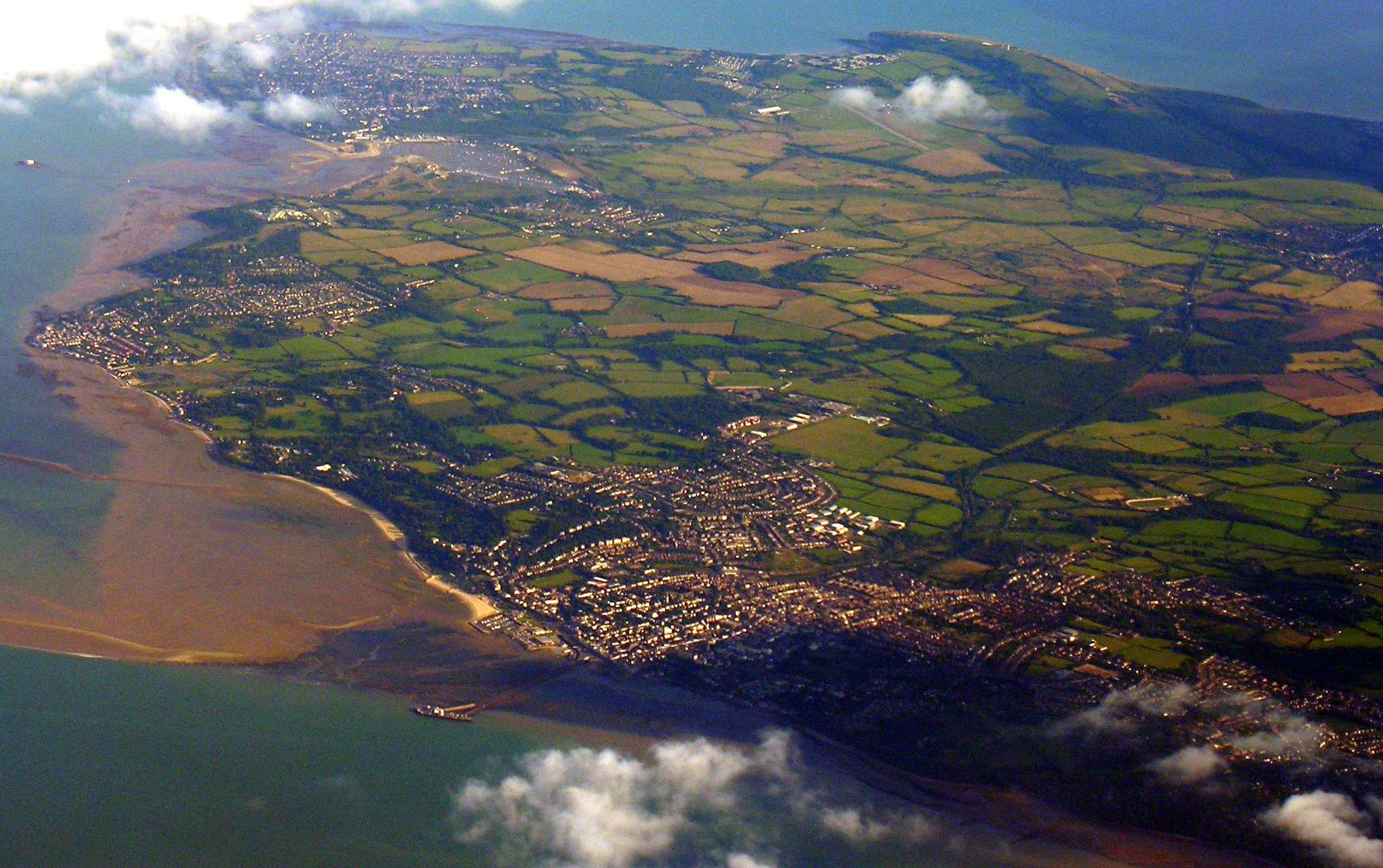 En route London to Sevilla